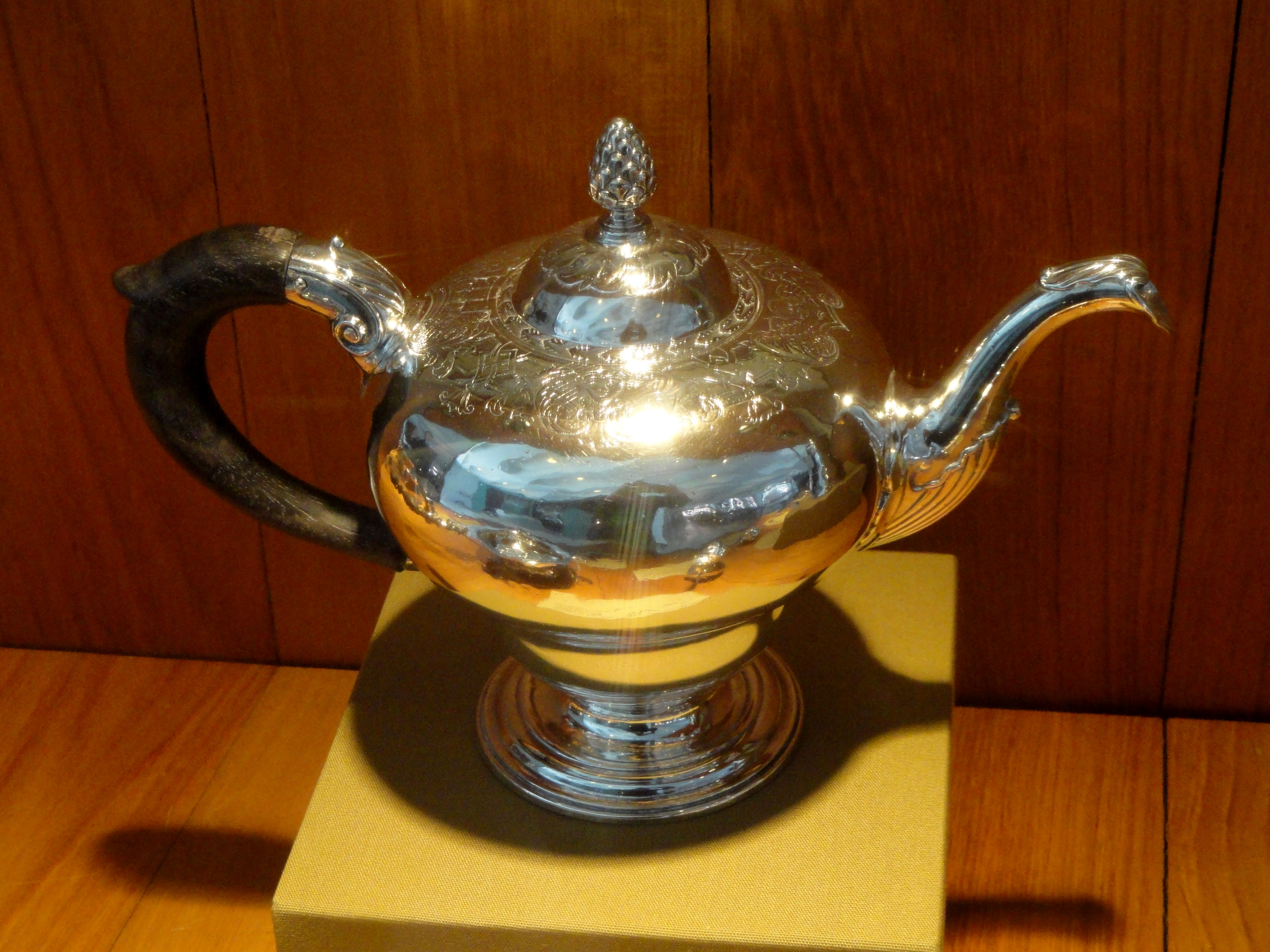 Teapot, Samuel Casey, Little Rest, Rhode Island, c. 1755, silver - Hood Museum of Art, Dartmouth College, Hanover, New Hampshire, USA. This work is in the public domain because the artist died more than 70 years ago.